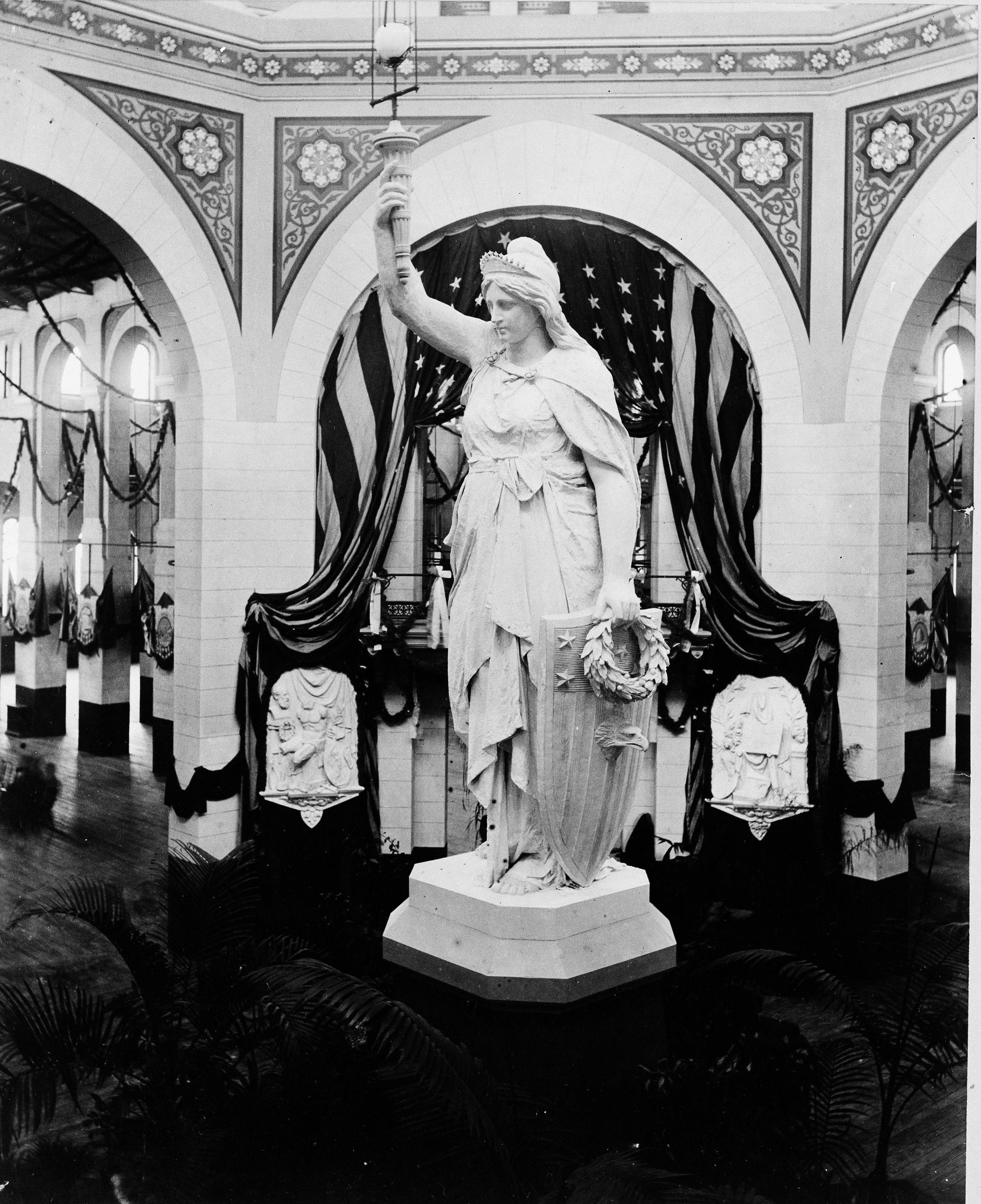 Description: The Rotunda from the northwest balcony of the new United States National Museum, now the Arts and Industries Building, decorated for President James A. Garfield and Vice President Chester A. Arthur's Inaugural Ball, March 4, 1881. This was the first event held in that building. The "Statue of America" in the rotunda holds an electric lamp in her hand. Creator/Photographer: Unidentified photographer Medium: Black and white photographic print Dimensions: 10 in x 8 in Date: 1881 Persistent URL: Repository: Smithsonian Institution Archives Accession number: MAH 66046